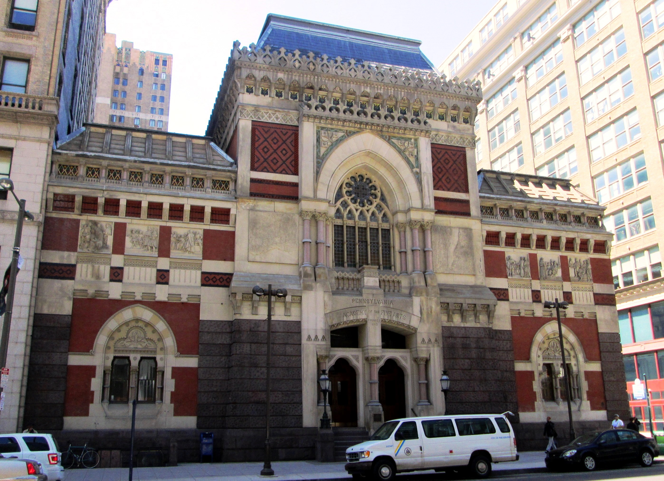 The Pennsylvania Academy of the Fine Arts building at Broad and Cherry Streets in the Center City area of Philadelphia was built from 1872-1876 and was designed by Frank Furness and George Hewitt in a combination of historical styles. It was restored in 1976, and is a National Historic Landmark. (Source: Philadelphia Architecture: A Guide to the City)